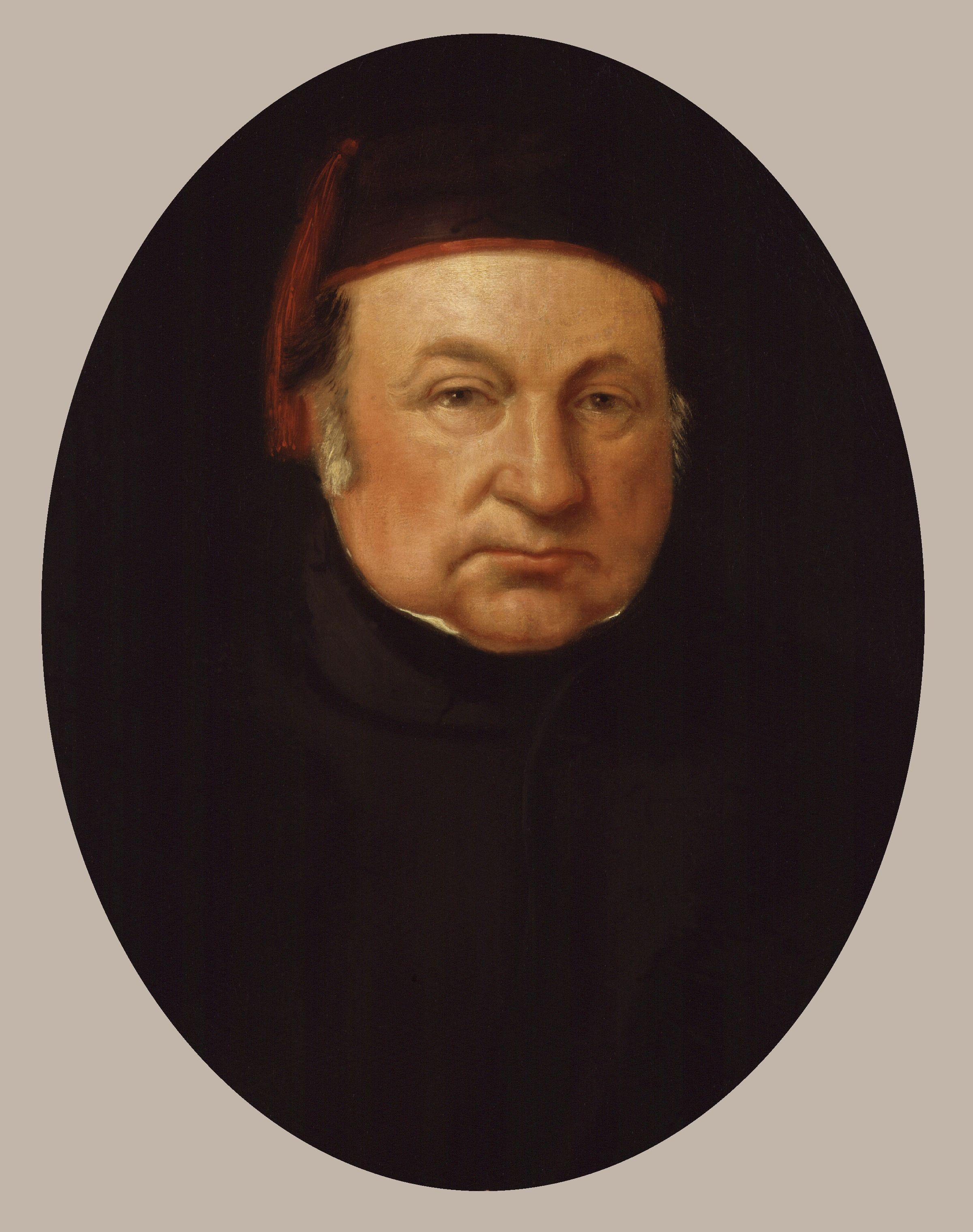 Robert Lucas Pearsall, by Philippa Swinnerton Hughes (née Pearsall) (died 1917), given to the National Portrait Gallery, London in 1917. All images in this batch have been confirmed as author died before 1939 according to the official death date listed by the NPG.